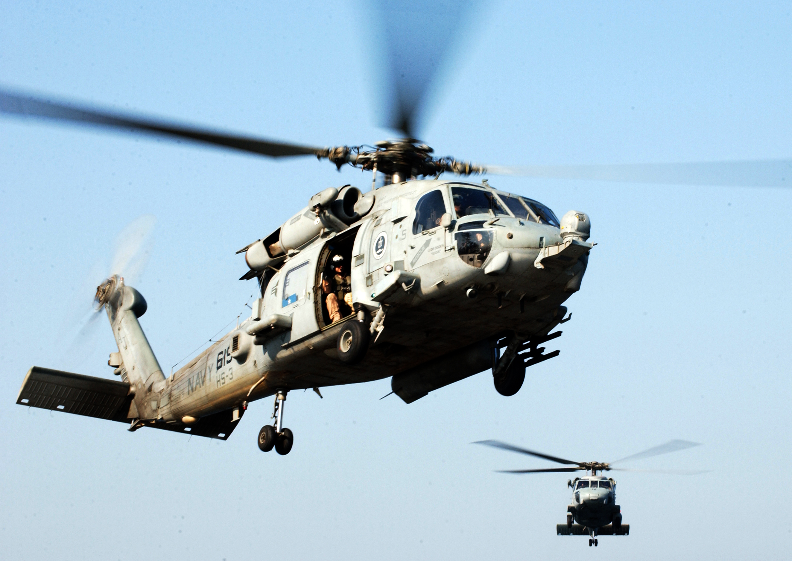 Persian Gulf (Oct. 13, 2005) - An HH-60H Seahawk and an SH-60F Seahawk, both assigned to the "Tridents" of Helicopter Anti-Submarine Squadron Three (HS-3), prepare to make their landing on the flight deck aboard the Nimitz-class aircraft carrier USS Theodore Roosevelt (CVN 71). Roosevelt and embarked Carrier Air Wing Eight (CVW-8) are currently underway on a regularly scheduled deployment in support of the Global War on Terrorism. U.S. Navy photo by Photographer's Mate 3rd Class Randall Damm (RELEASED)